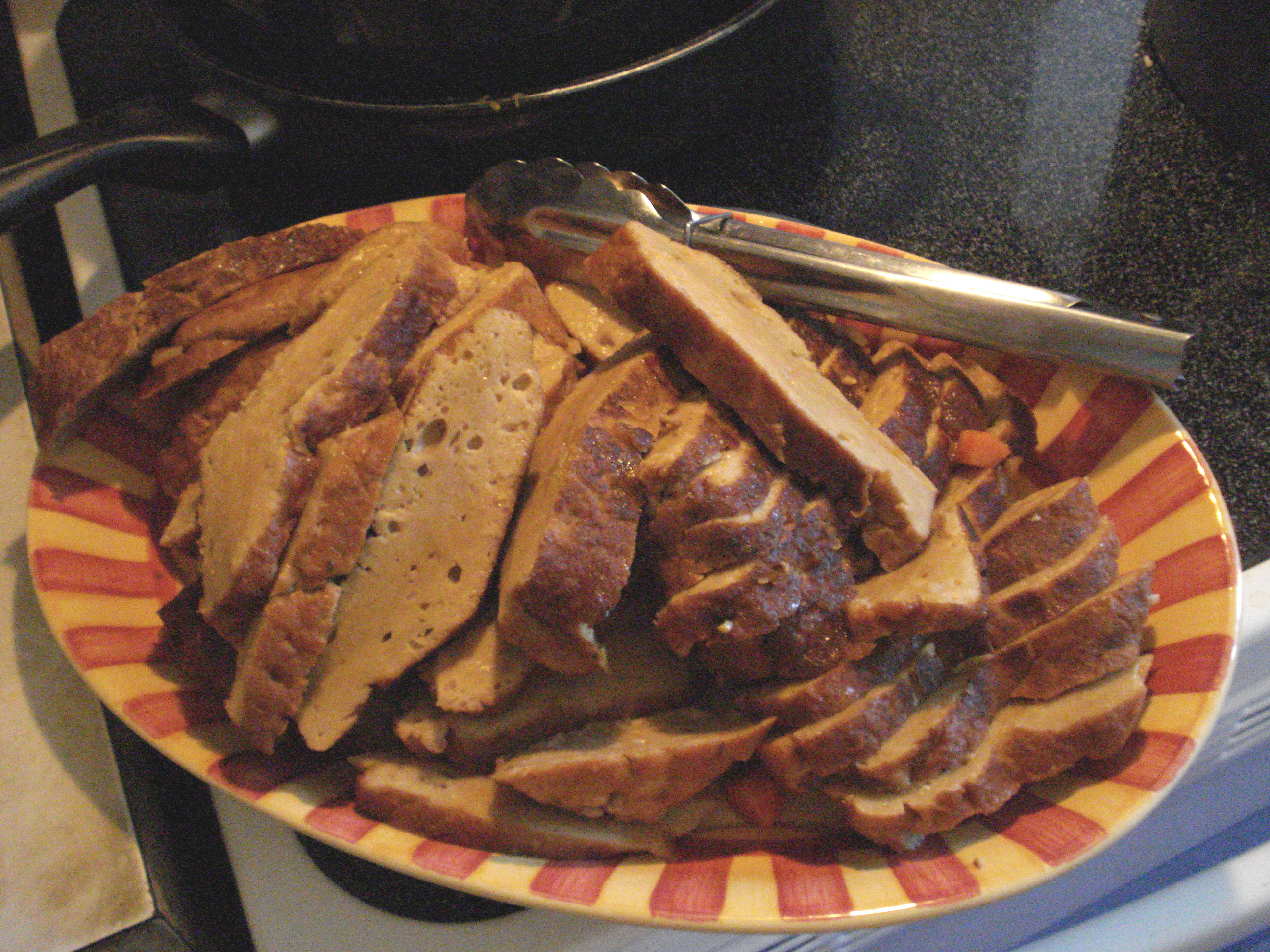 Seitan roast, sliced and ready to serve